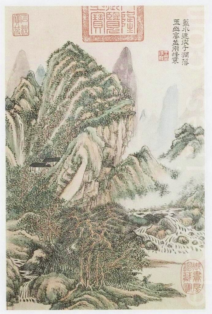 Wang Shimin (1592-1680), Qing dynasty. Dated 1666. Album of 12 leaves, ink and color on paper, each leaf about h: 39 cm, w: 25.5 cm (see [1])